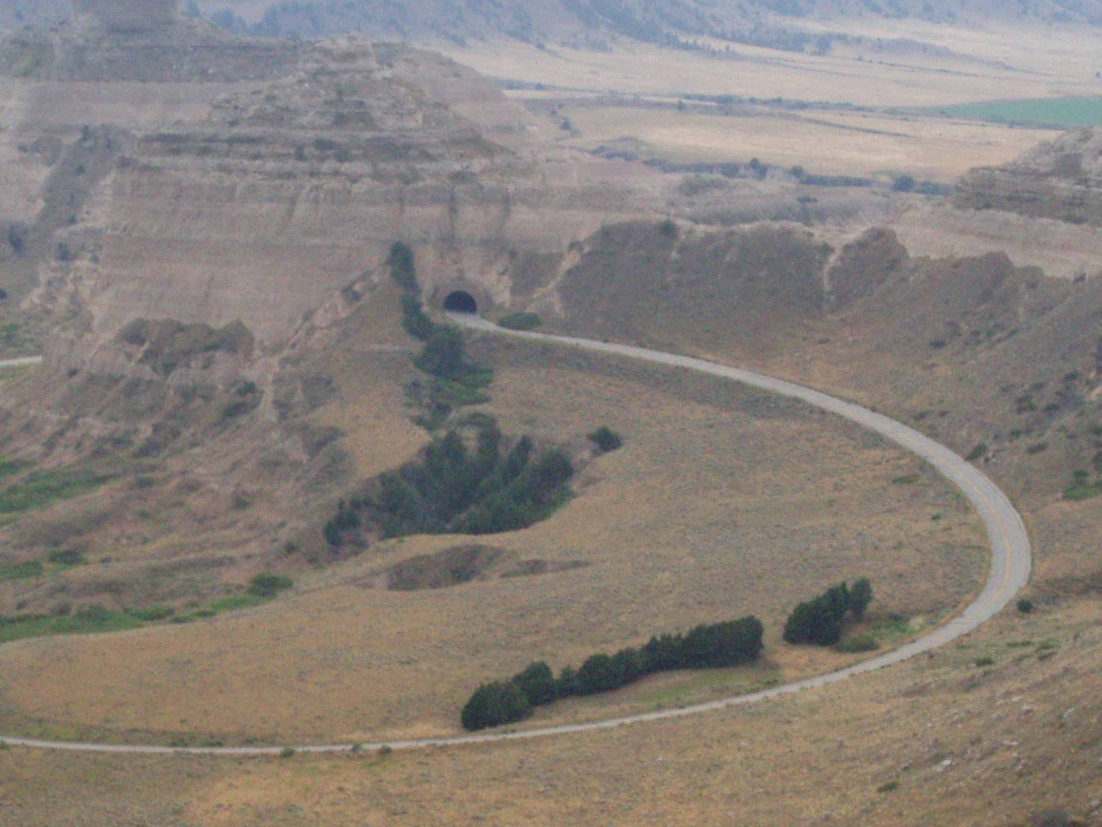 A tunnel at the Scotts Bluff National Monument located in western Nebraska